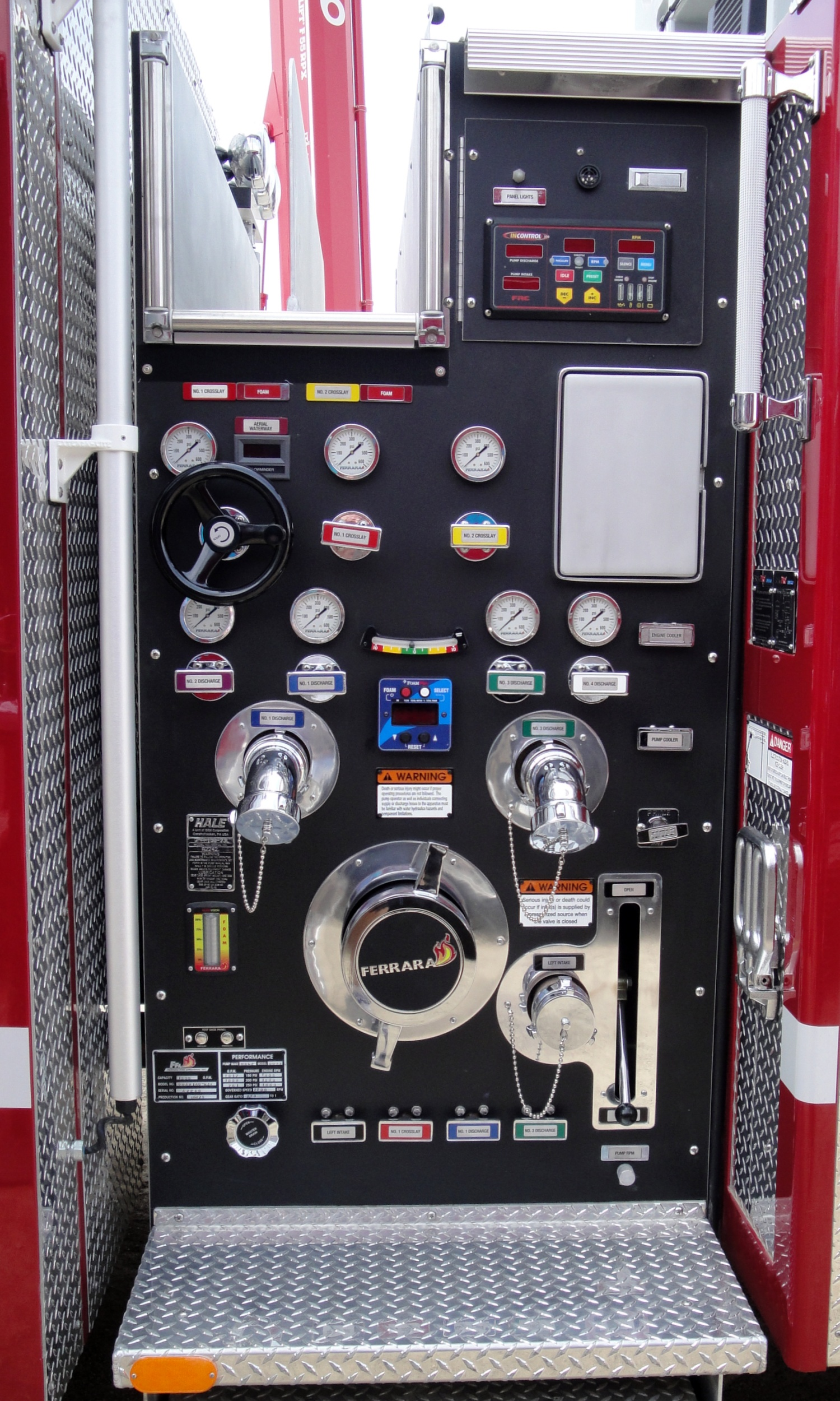 Hale midship pump panel (Ferrara Fire Apparatus), Interschutz 2010